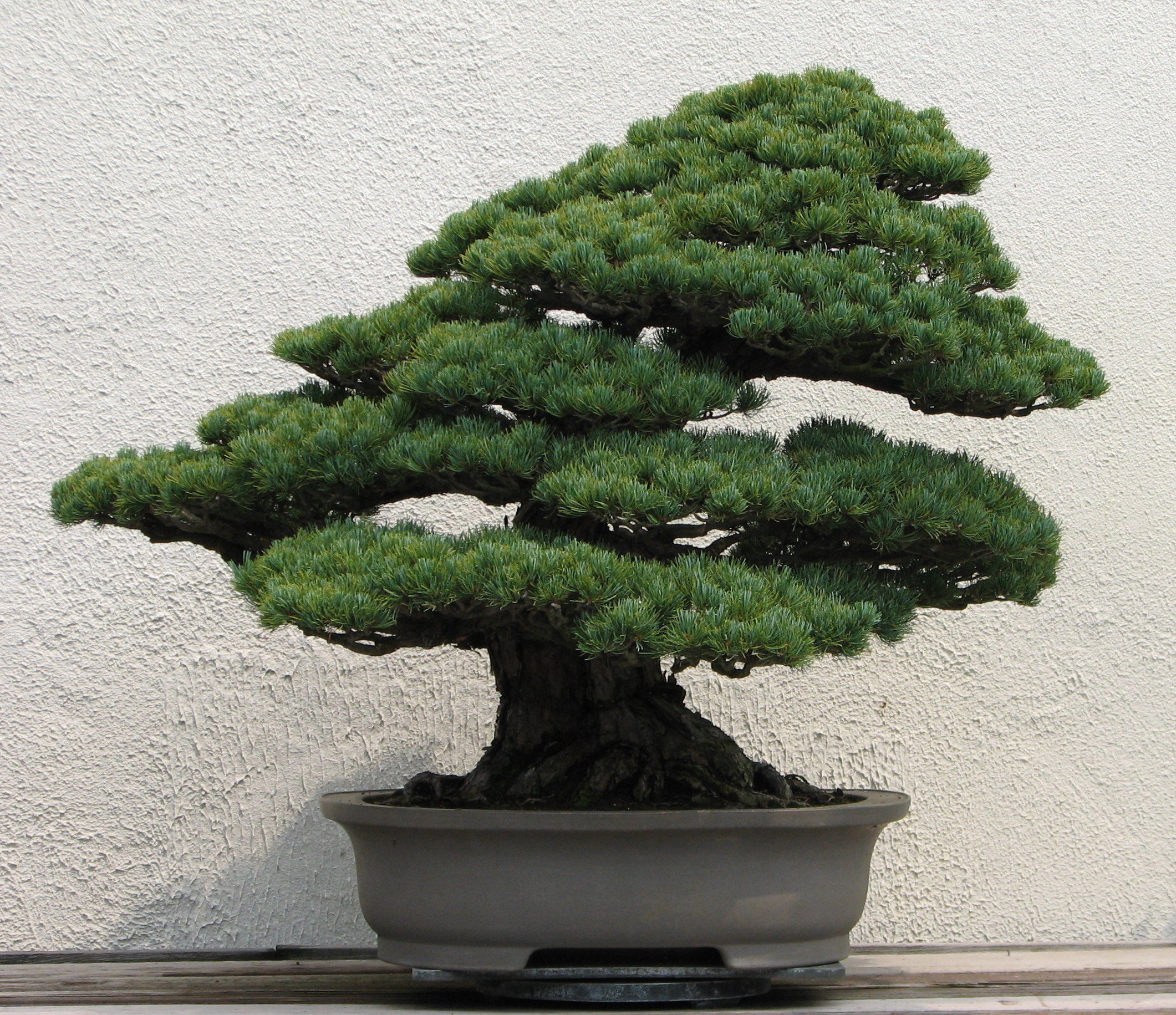 A Japanese White Pine (Pinus parviflora) bonsai on display at the National Bonsai & Penjing Museum at the United States National Arboretum. According to the tree's display placard, the age of this tree is unknown. It was donated by Daizo Iwasaki. This is the "back" of the tree.